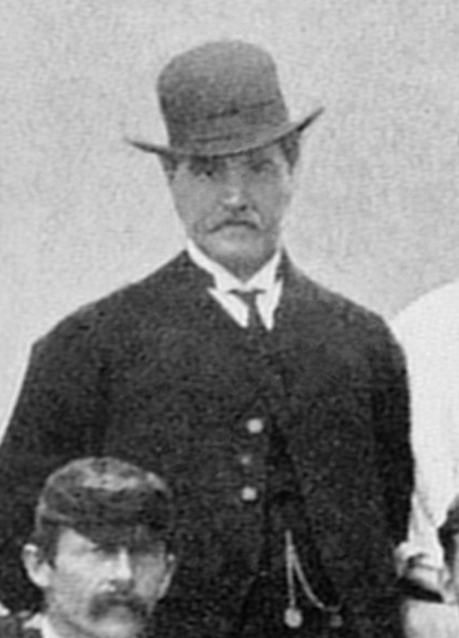 Frank Farrands with the England Eleven in 1886 Title: "W.G.", cricketing reminiscences and personal recollections Year: 1899 (1890s) Authors: Grace, W. G. (William Gilbert), 1848-1915 Subjects: Cricket Publisher: London, J. Bowden